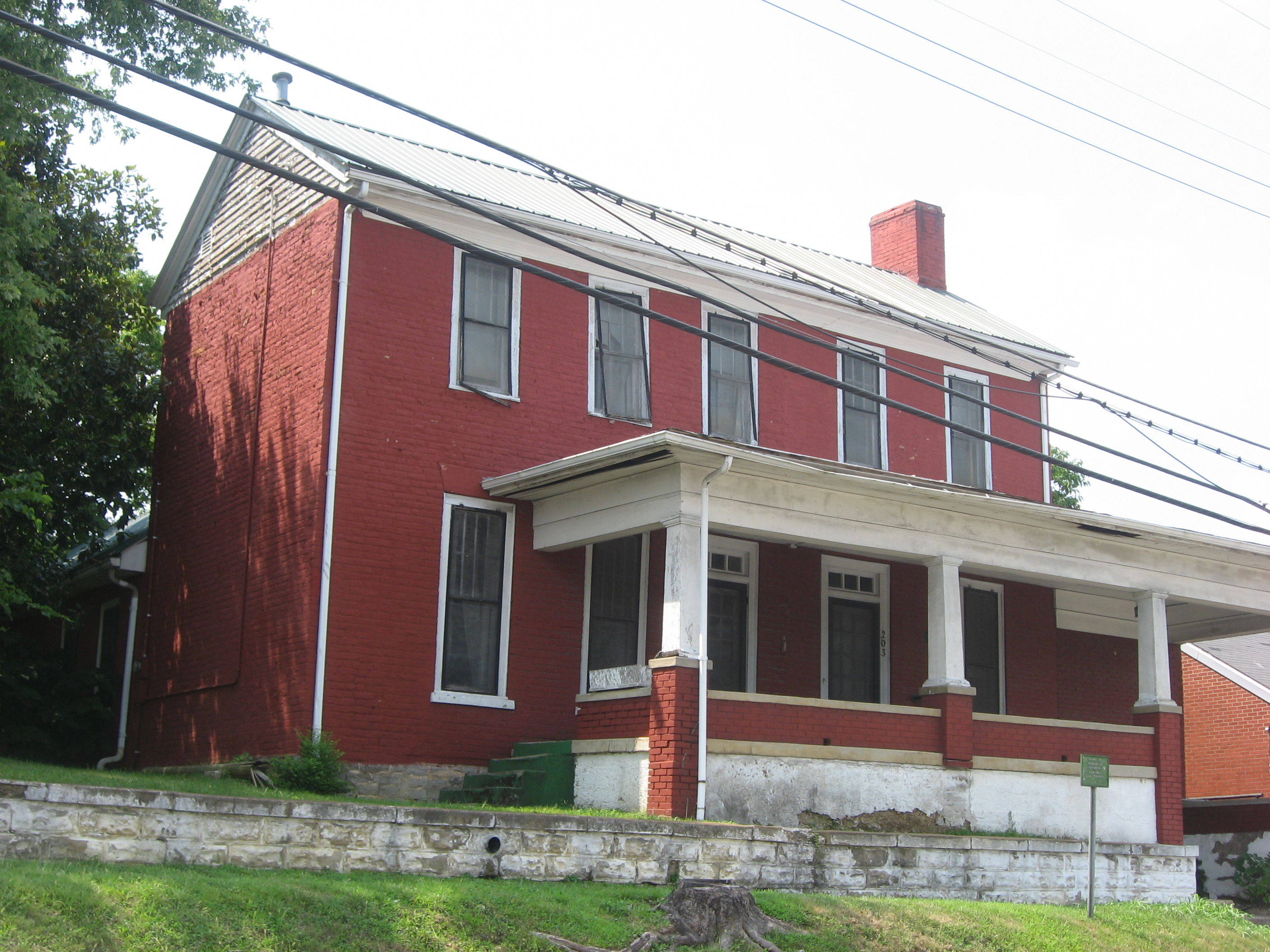 Front and southern side of the William H. Herndon House, located at 203 S. Main Street (U.S. Route 68 in Greensburg, Kentucky, United States. Built in 1800 and the birthplace of William Herndon, it is listed on the National Register of Historic Places.